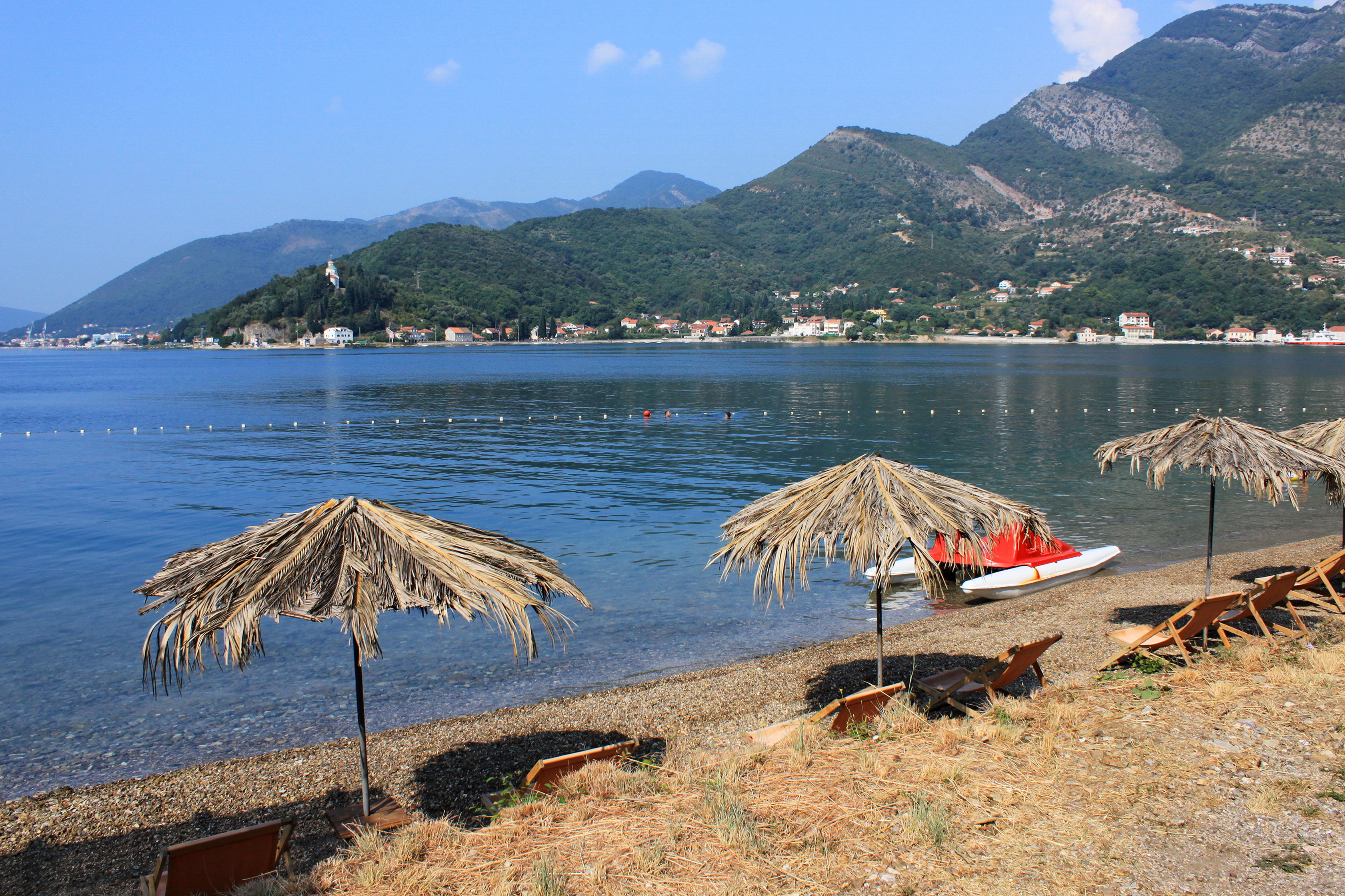 Bay of Kotor, Verige Strait. Lepetane, Montenegro.